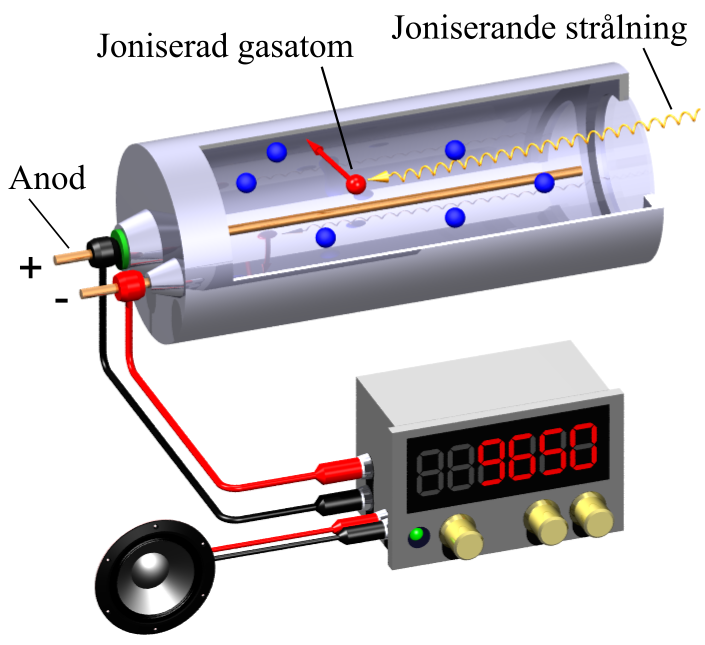 A Geiger-Muller counter